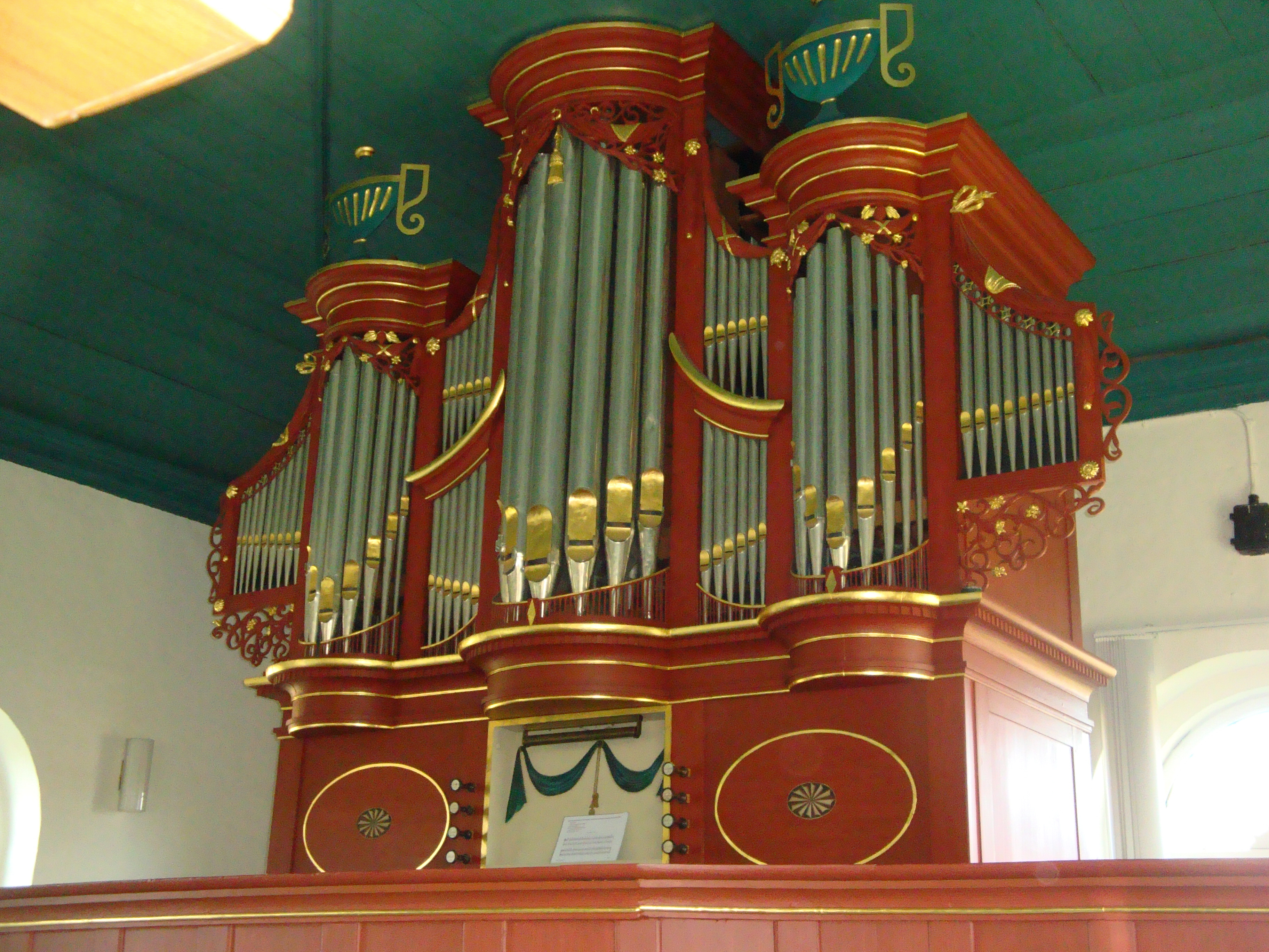 Organ in Detern